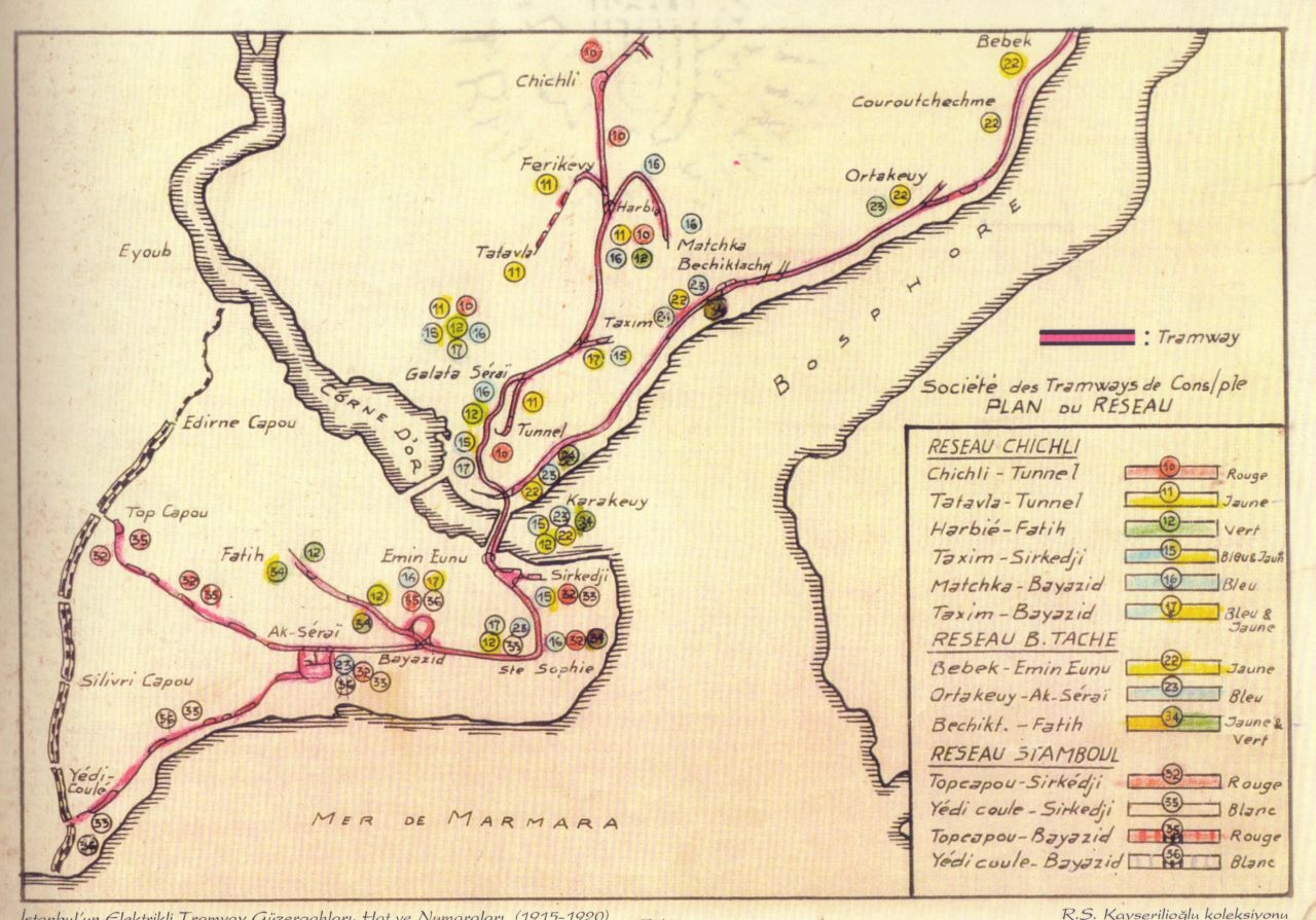 Diagrammatic map of the tram system of Istanbul, 1920